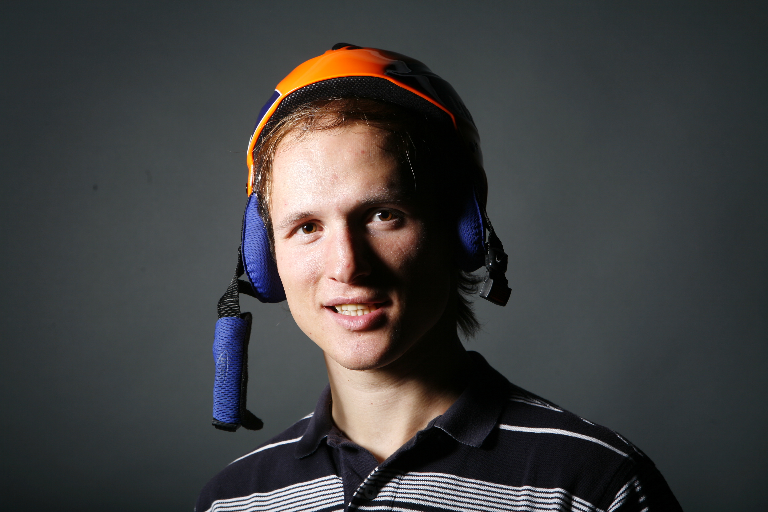 Alexander Khoroshilov